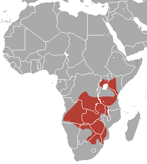 Short-snouted Elephant Shrew (Elephantulus brachyrhynchus) range